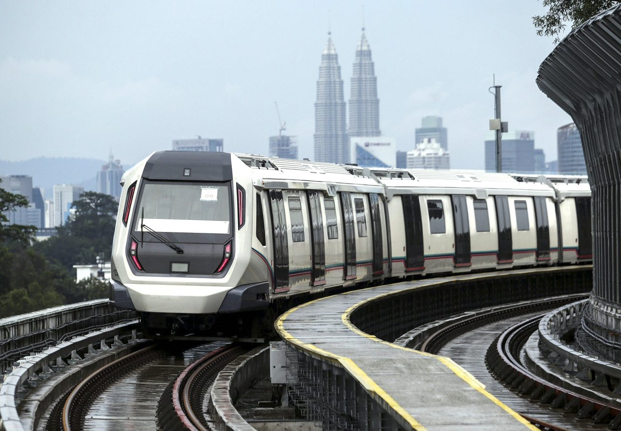 MRT SBK Semantan station2